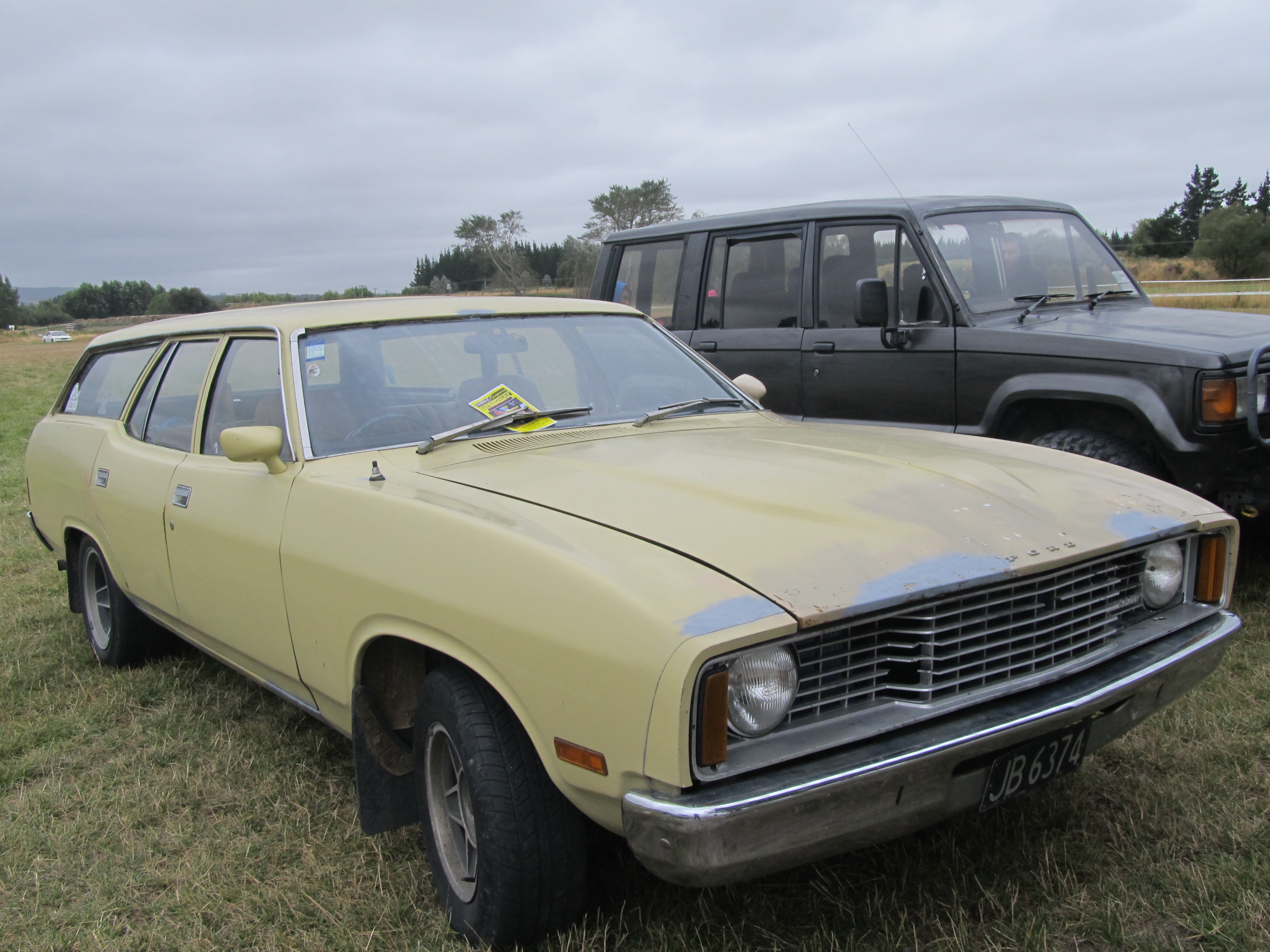 A great old tank; at some point it was converted to CNG. At the end of 2010 this had travelled an impressive 358k; wonder what it's at now?